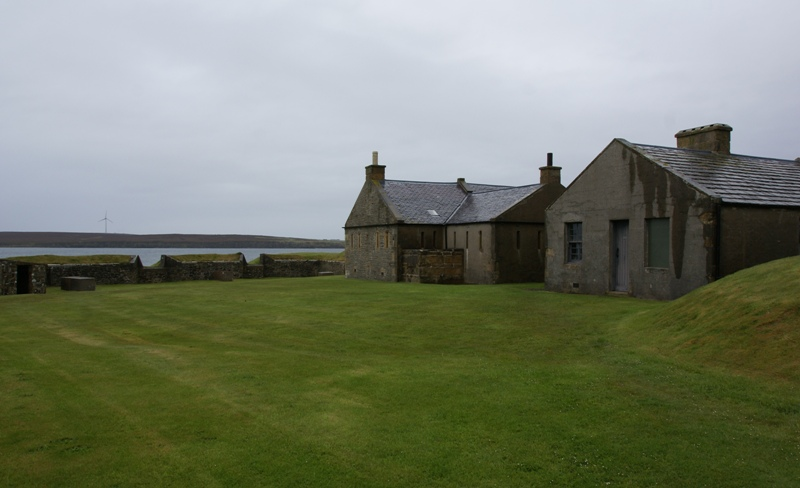 Hackness Martello Tower and Battery, South Walls, Orkney, Scotland. Battery and barracks. View from southwest.